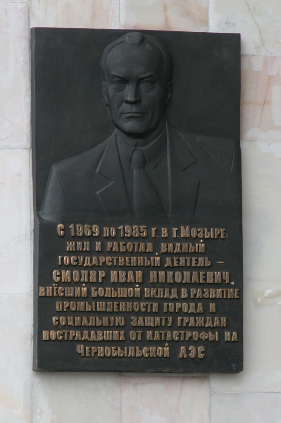 plaque in honor of Ivan Nikolaevich Smolyar, installed in the city of Mozyr